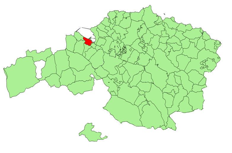 Map of Santurtzi